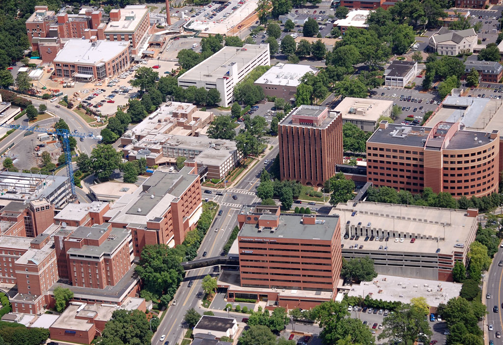 View of the Elizabeth neighborhood of Charlotte, NC.